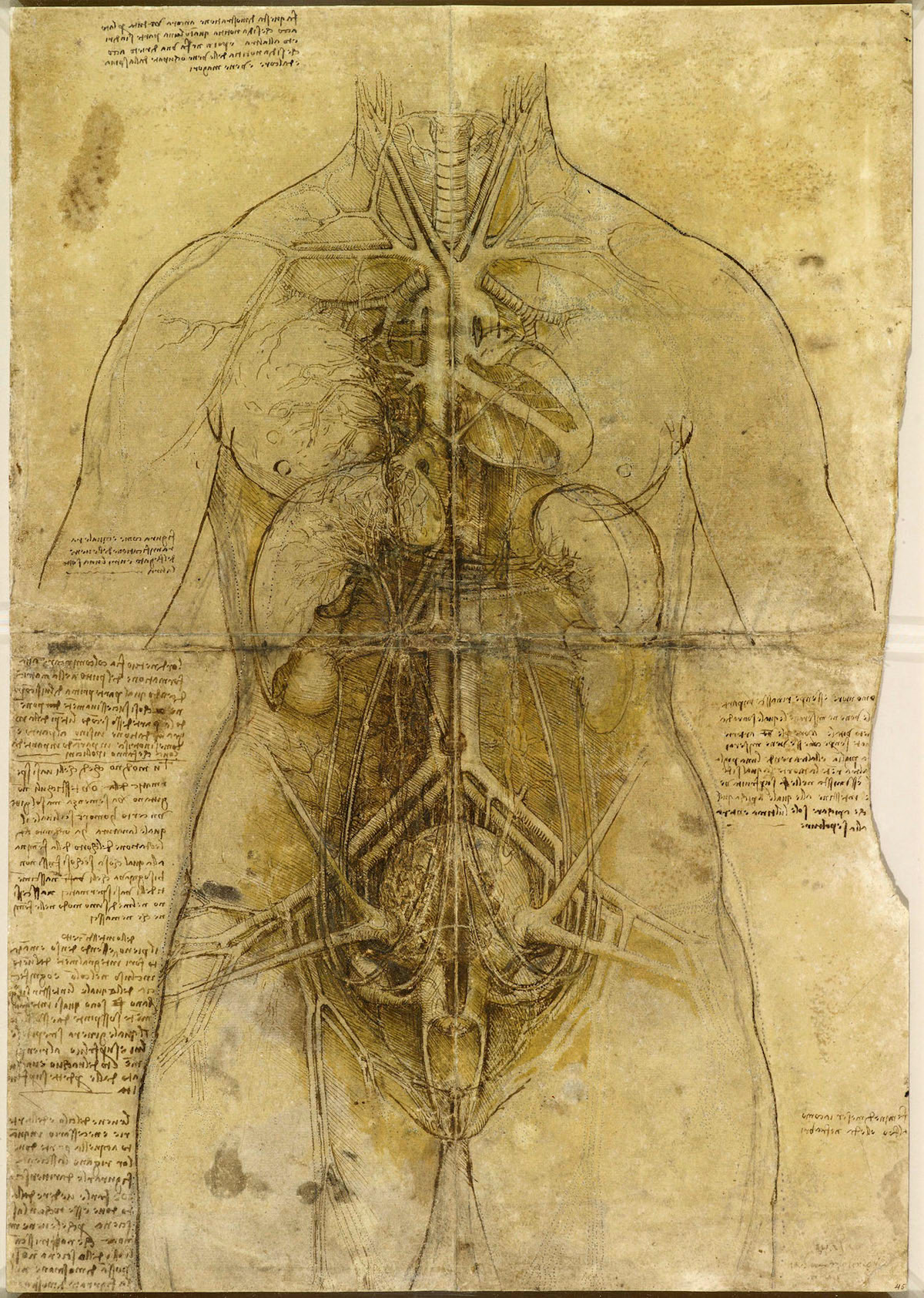 Anatomical drawing by Leonardo da Vinci